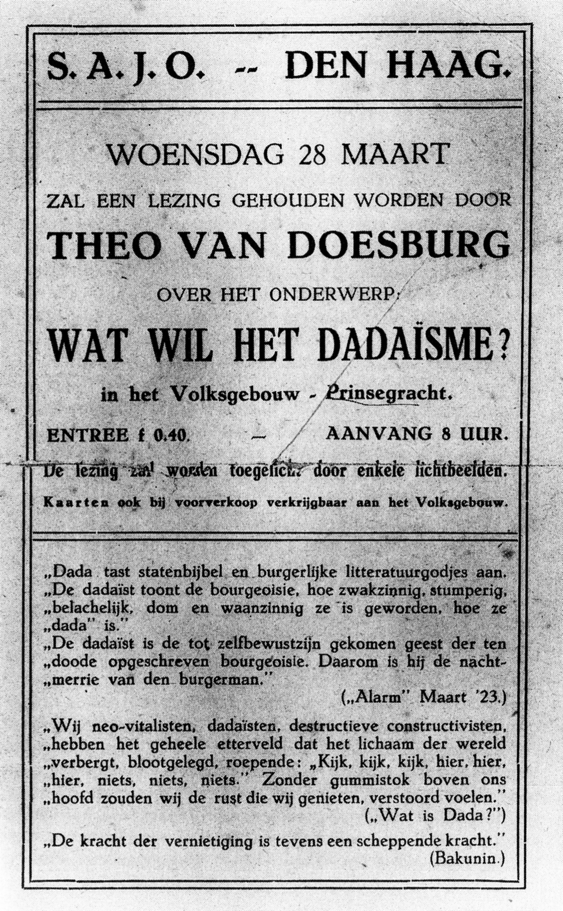 Advertisement for the lecture 'Wat wil het dadaïsme?' (What does dadaism want?).